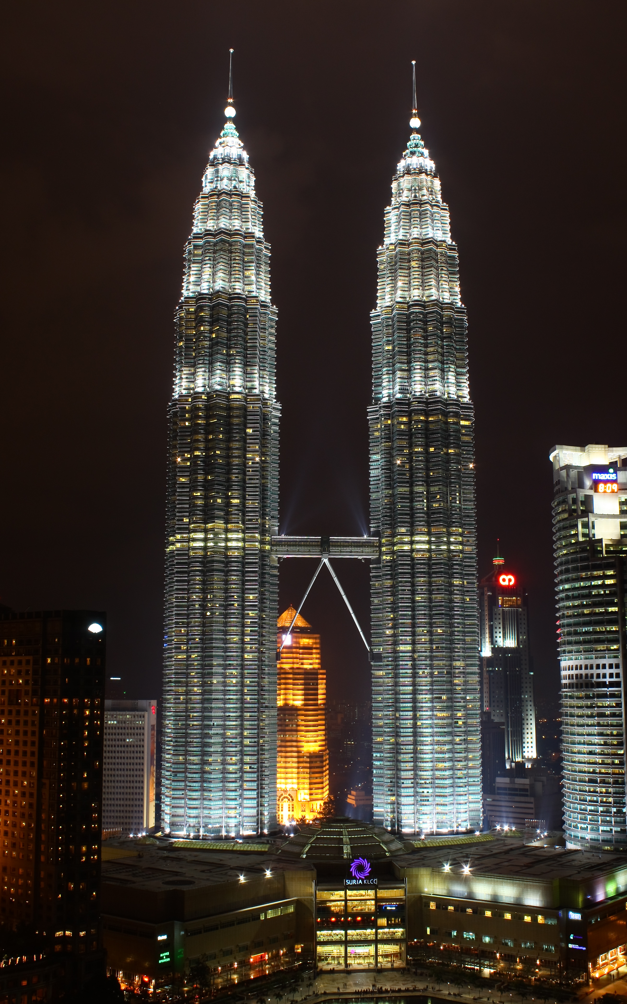 Taken from 29th floor of Traders hotel